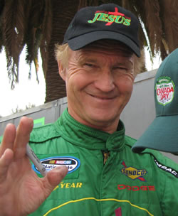 Morgan Shepherd posing with a fan at the 2008 NASCAR Nationwide Series event at Mexico City